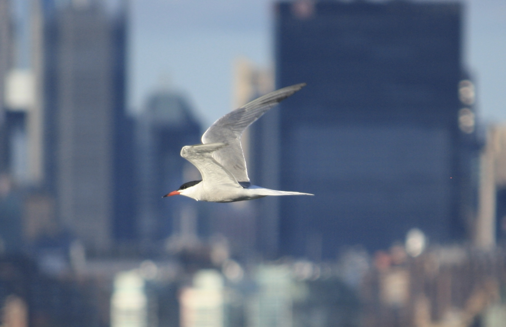 Common tern seen flying over the Hudson river photographed from Liberty State Park in New Jersey on a summer evening, with skyscrapers of Manhattan in the background.